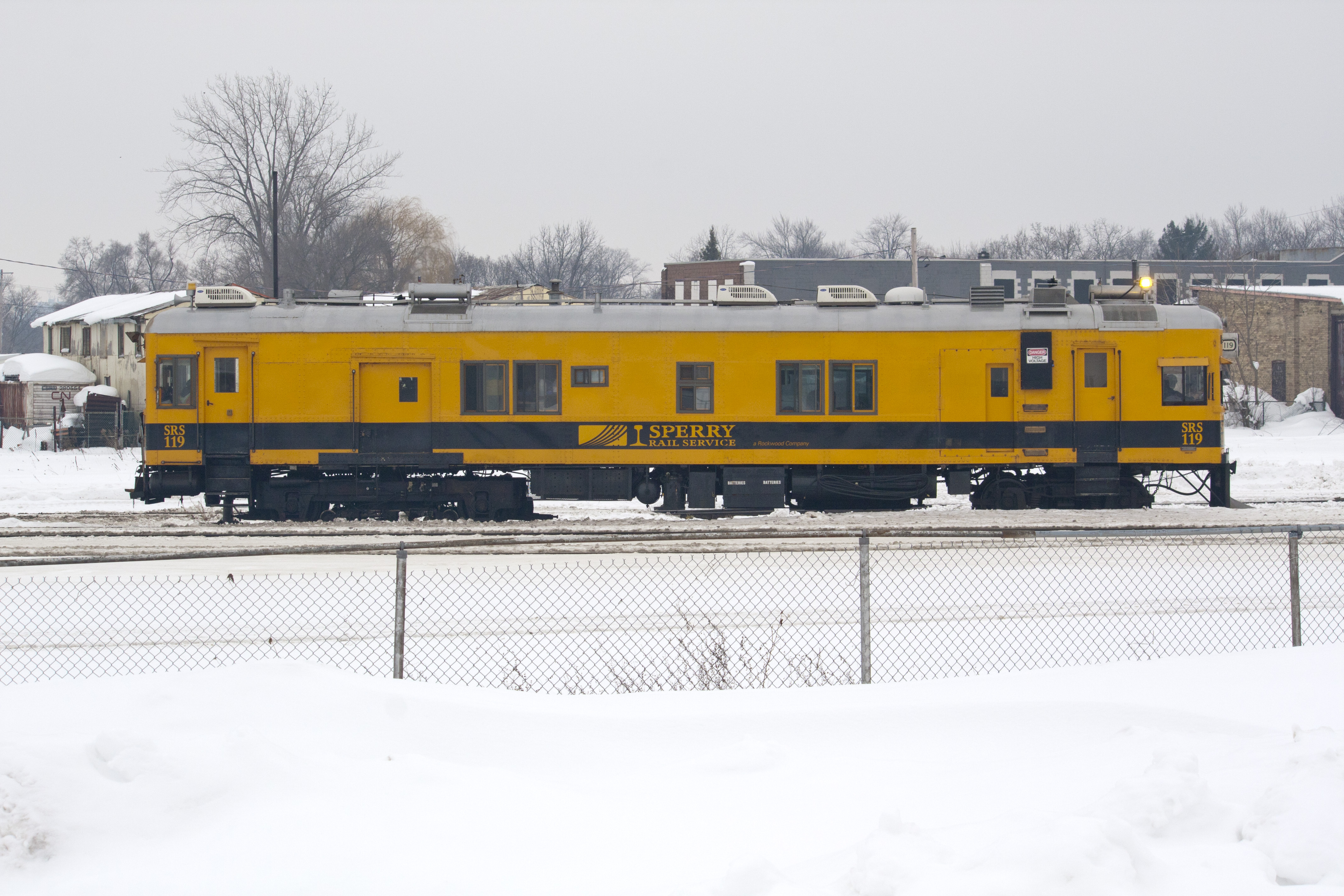 Sperry Rail Services inspection car #119 at CN London East yard, London Ontario.